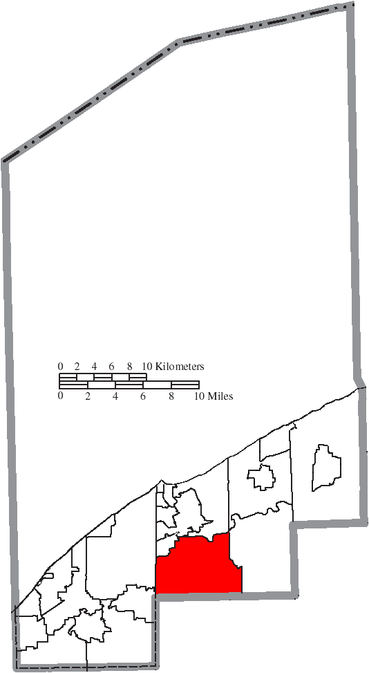 Map of the municipal and township boundaries of Lake County, Ohio, United States, as of the 2000 census, with the location of Concord Township highlighted. Township borders are shown only in unincorporated areas in order to differentiate incorporated and unincorporated areas more clearly.